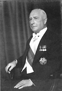 Patrick Duncan, Governor General of South Africa c.1940